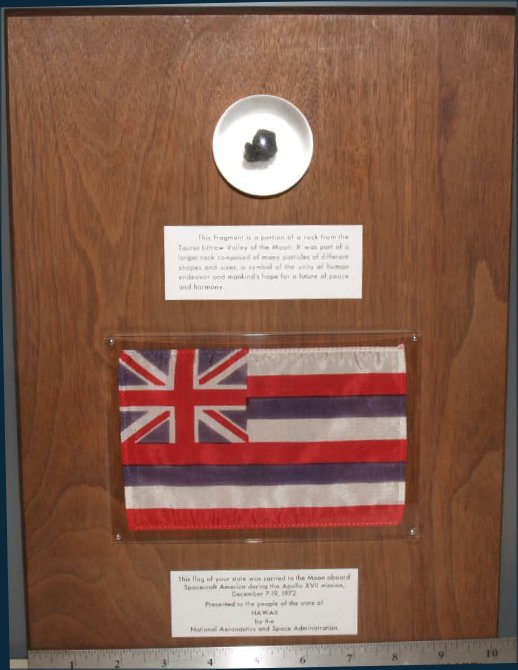 Hawaii Apollo 17 display with 10 inch ruler measurement